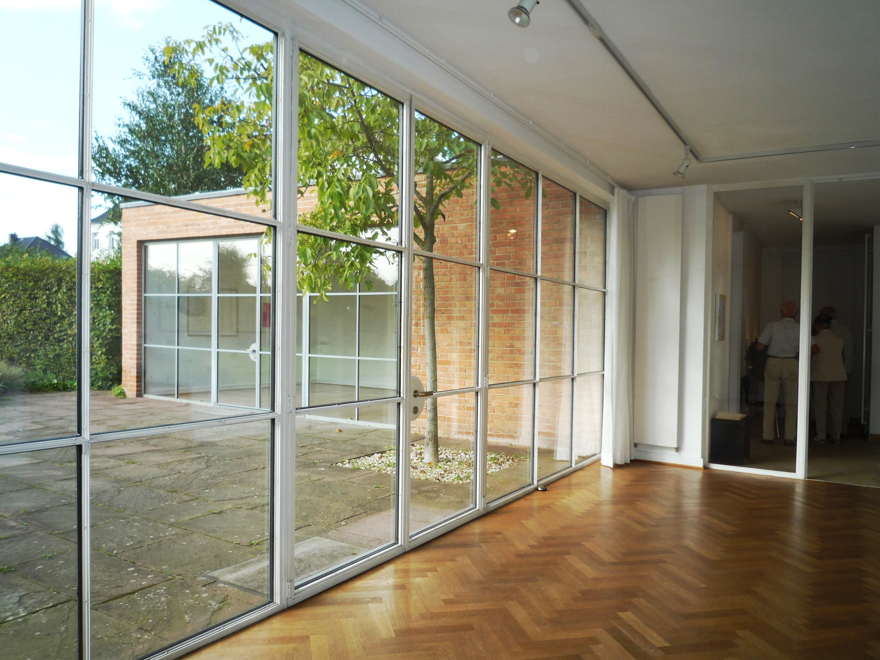 The Villa Lemke, built 1932/33 in Berlin-Weissensee (Germany). The architect was Mies van der Rohe (1886-1969). Today the building is visited as a monument of architecture and used for small exhibitions of Modern Art.